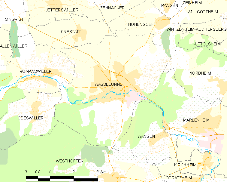 Map of French municipality